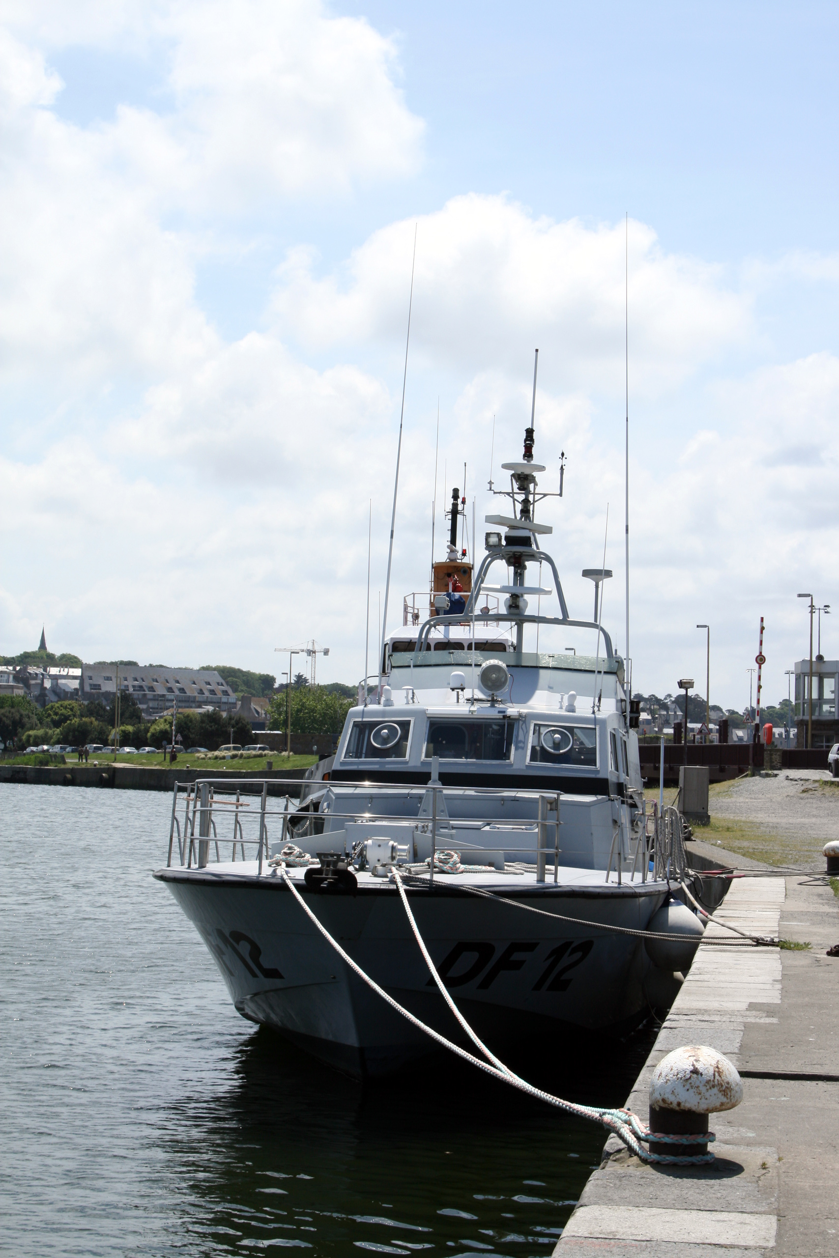 Haize Hegoa type patrol boat Lissero (DF47), of the French customs services, photographed in Saint-Malo harbour.